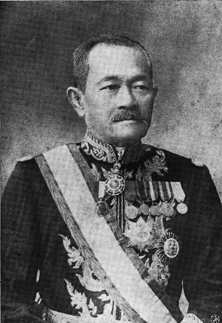 Prince Wattana of Siam